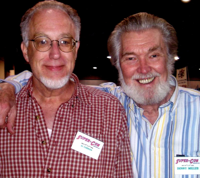 Al Gordon and Denny Miller at the Super-Con comics convention.